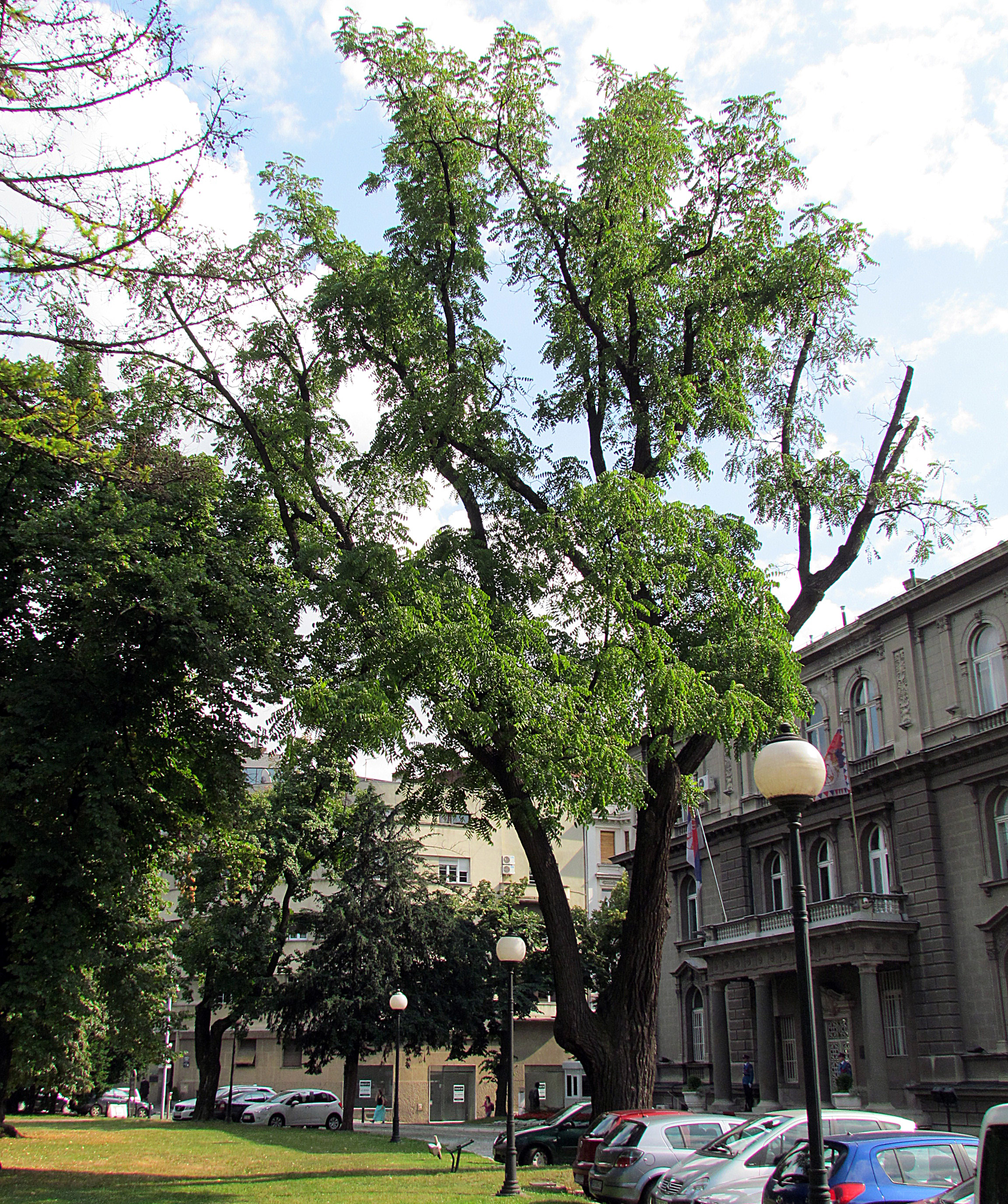 Juglans nigra infront of Novi dvor, Belgrade